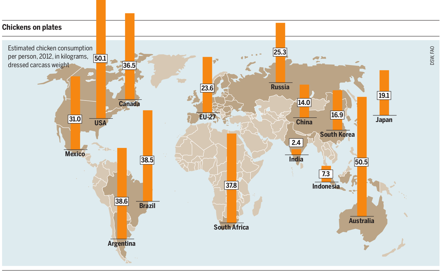 Estimated chicken consumption per person, 2012, in kilograms, dressed carcass weight